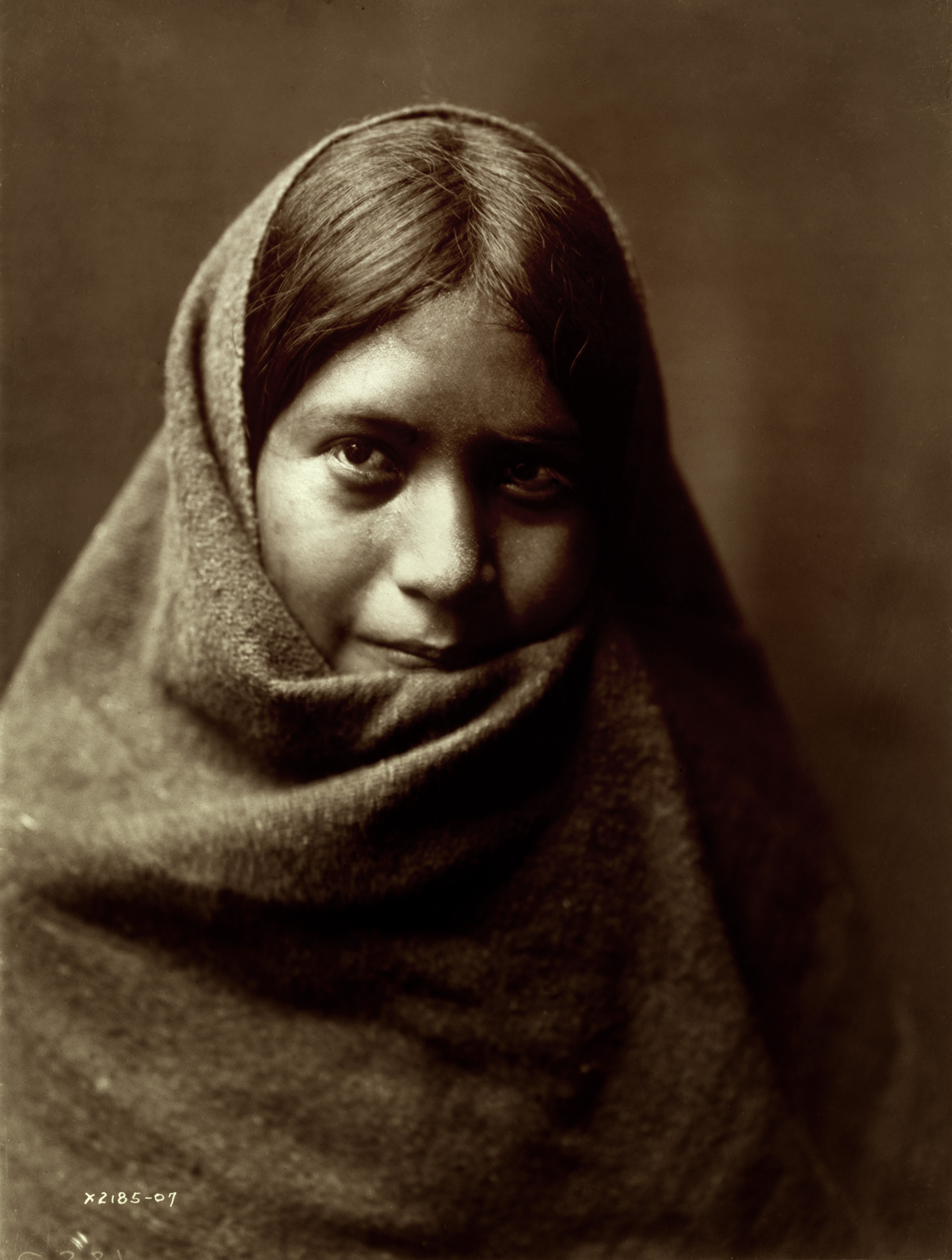 "Pakit, Maricopa" (1907). Photograph of Pakit, a young Maricopa woman, in Arizona. Published in: The North American Indian / Edward S. Curtis. [Seattle, Wash.] : Edward S. Curtis, 1907-30, v. 2, pl. 70. by Edward Sheriff Curtis, 1907.